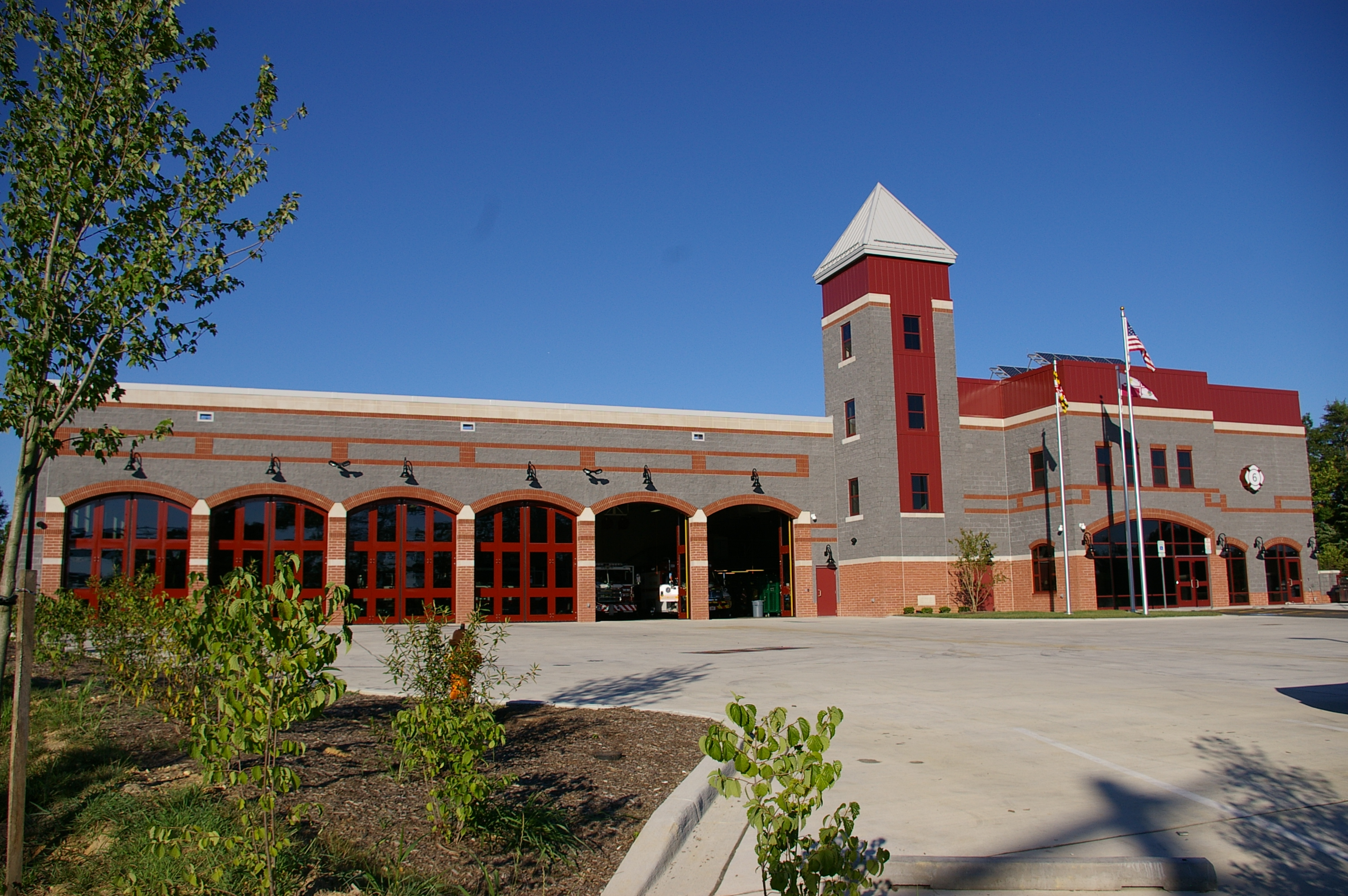 The new Station 6 at the intersection or Corridor Rd. and Washington Blvd, Howard County MD.